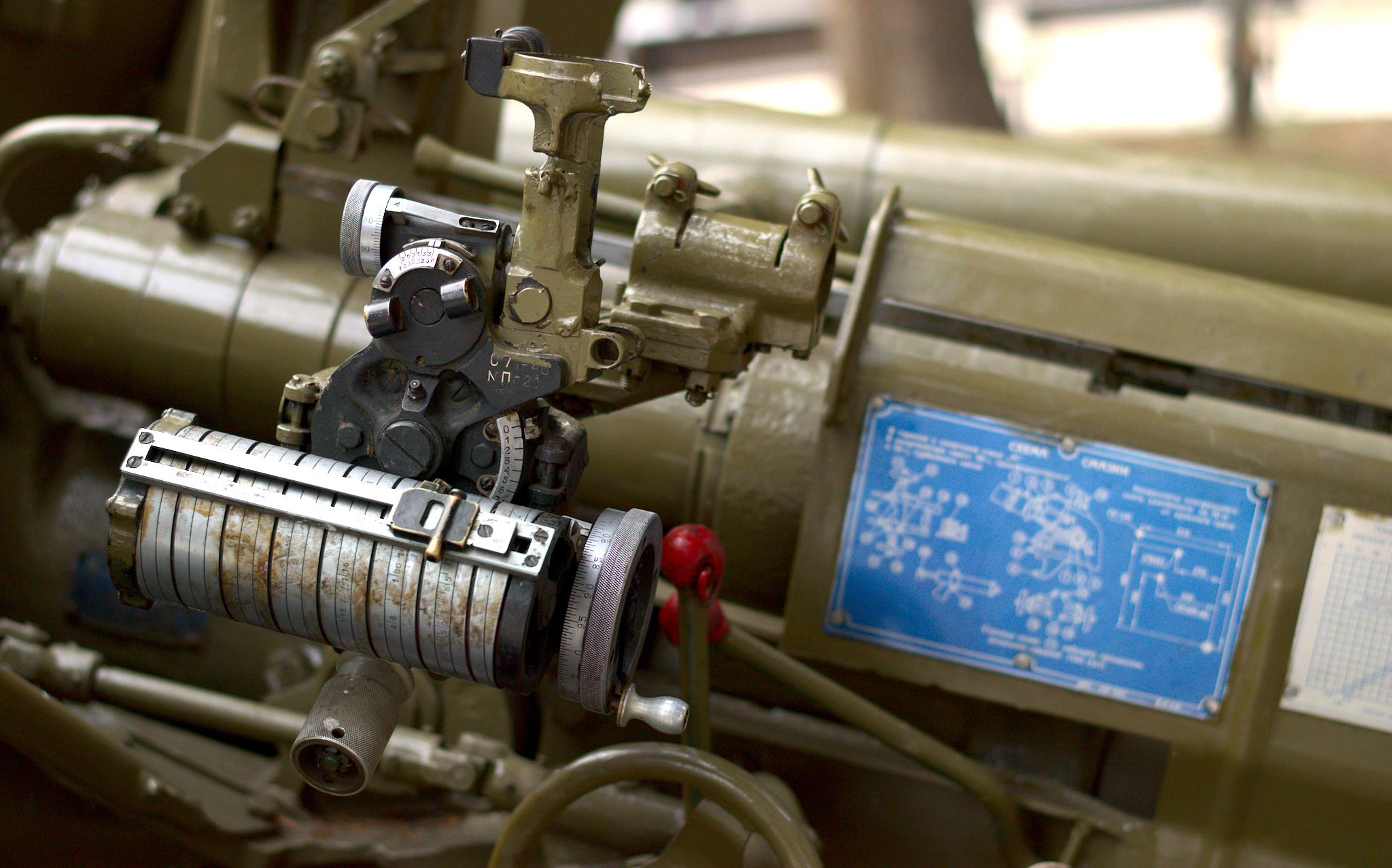 Closeup of the T-12 anti-tank gun aiming mechanism, as seen on the one displayed in Batak, Bulgaria's city centre.